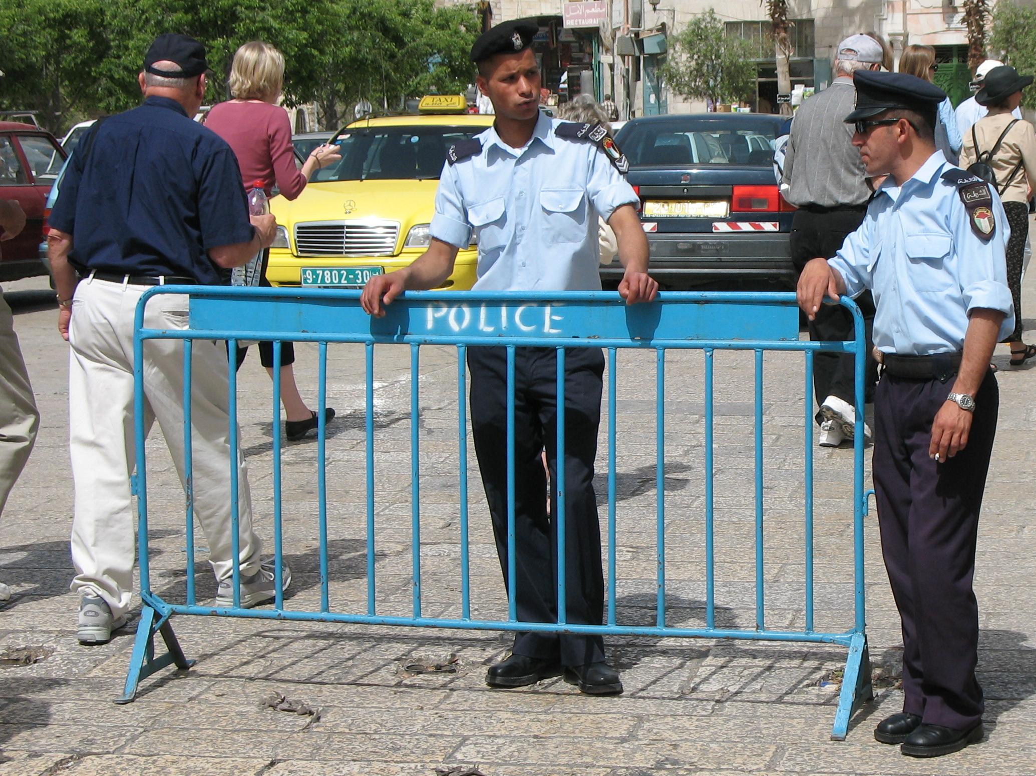 Two Palestinian police standing in front of the Church of the Nativity blogged at Bethlehem Street. Pictures taken while walking or riding bus in Bethlehem (plus two pics from a gift shop)